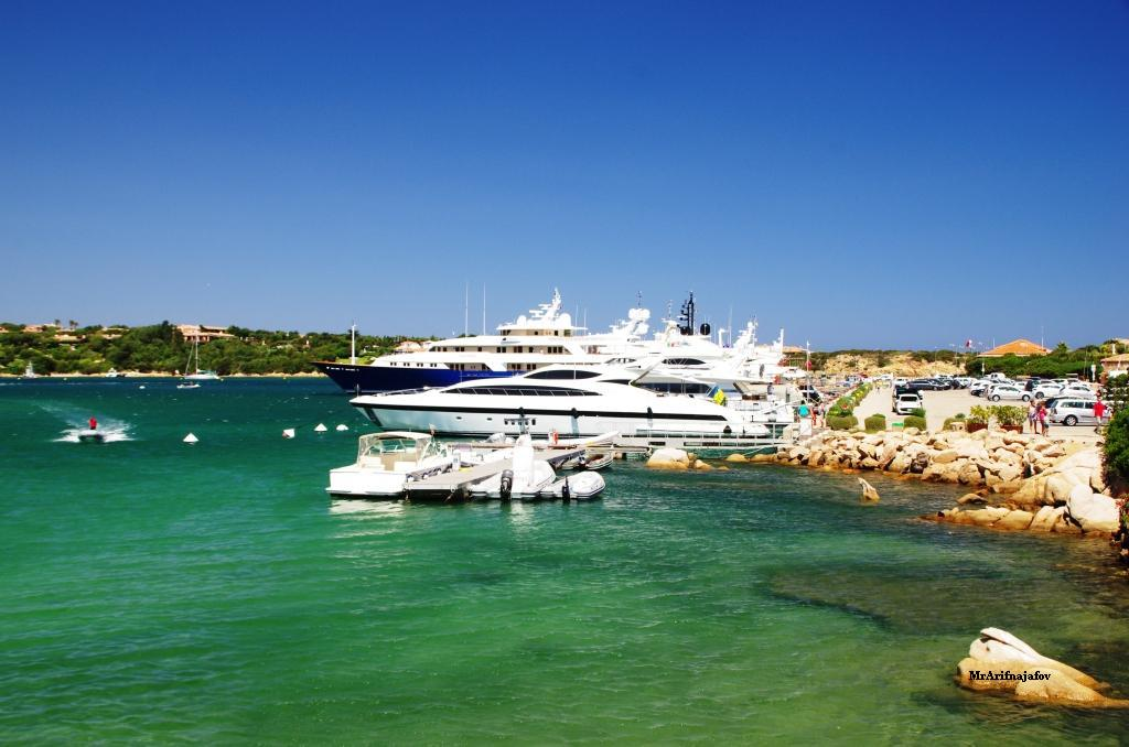 Porto Cervo, Sardinia